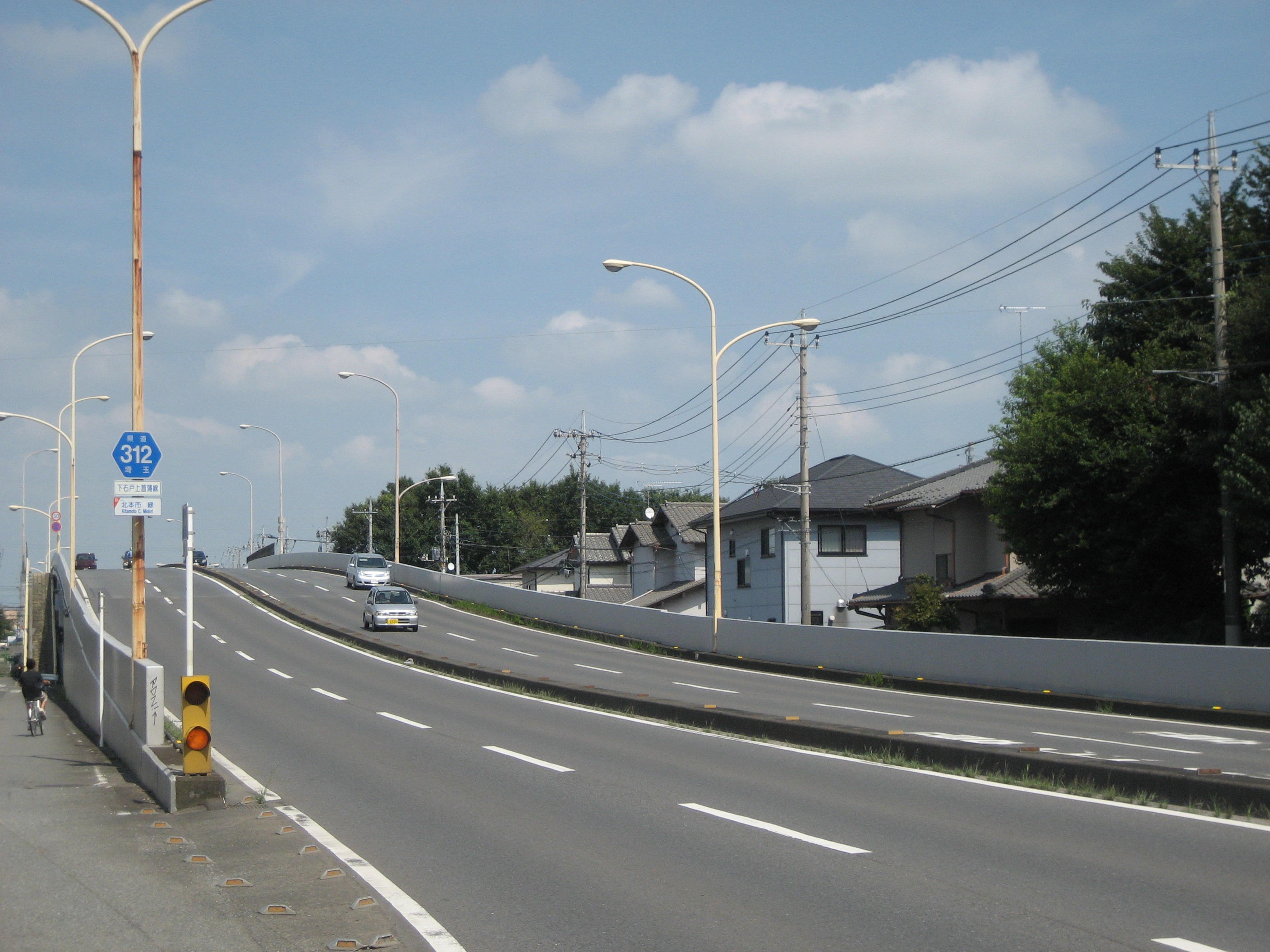 The Saitama Prefectural Road Route 312 in Midori, Kitamoto City